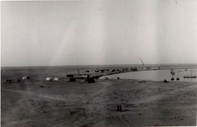 The photographs accompany a statement and evidence submitted to the British Government by the Government of Bahrain relating to Bahrain's claim to sovereignty over the Hawar Islands